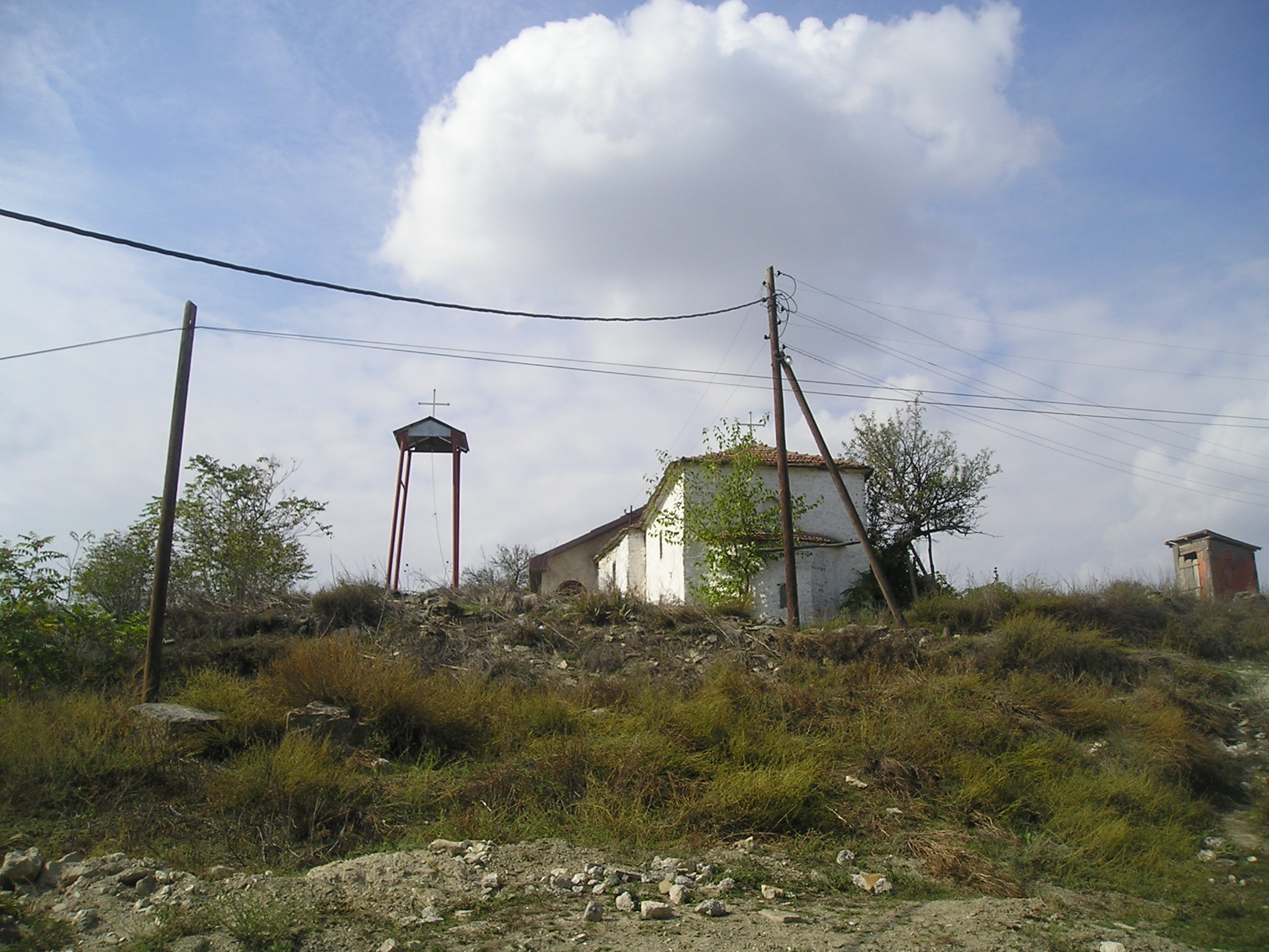 Church of the Holly Salvation in the village of Nogaevci, Macedonia